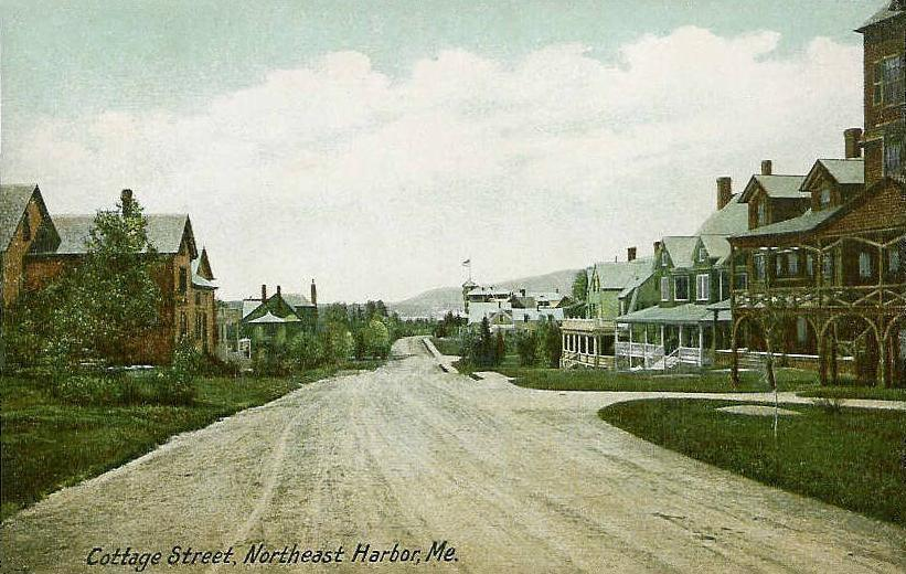 Street View, Northeast Harbor, ME; from a c. 1905 postcard published by the Hugh C. Leighton Co. of Portland, Maine.